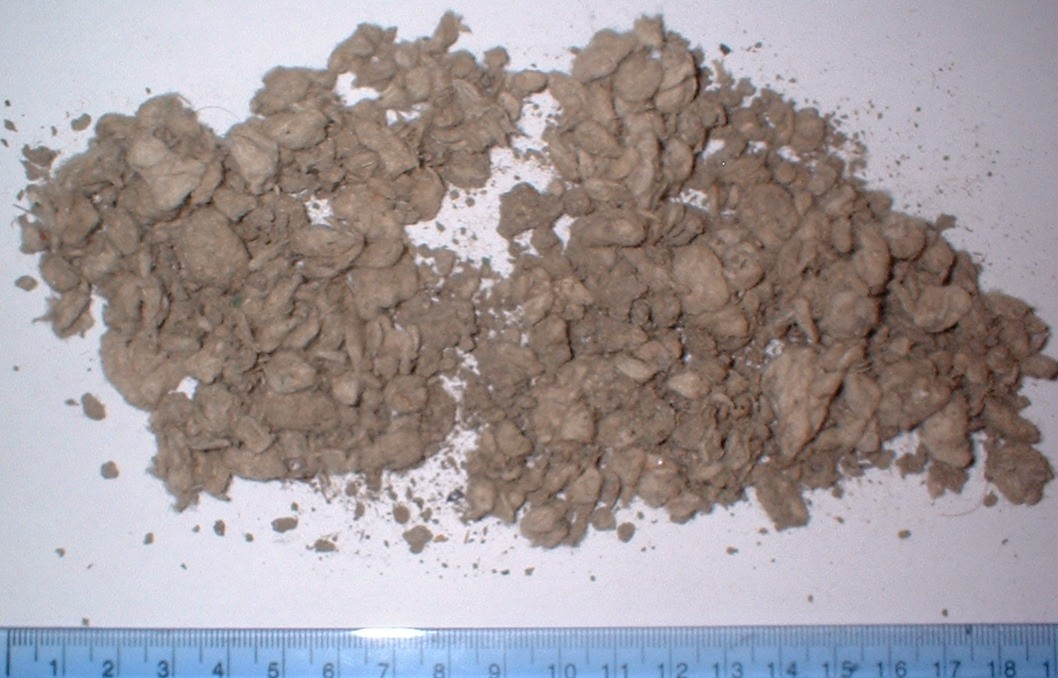 Acidogenic anaerobic digestate Photographer: Alex Marshall, Clarke Energy Ltd See also Anaerobic digestion Digestate Mechanical biological treatment